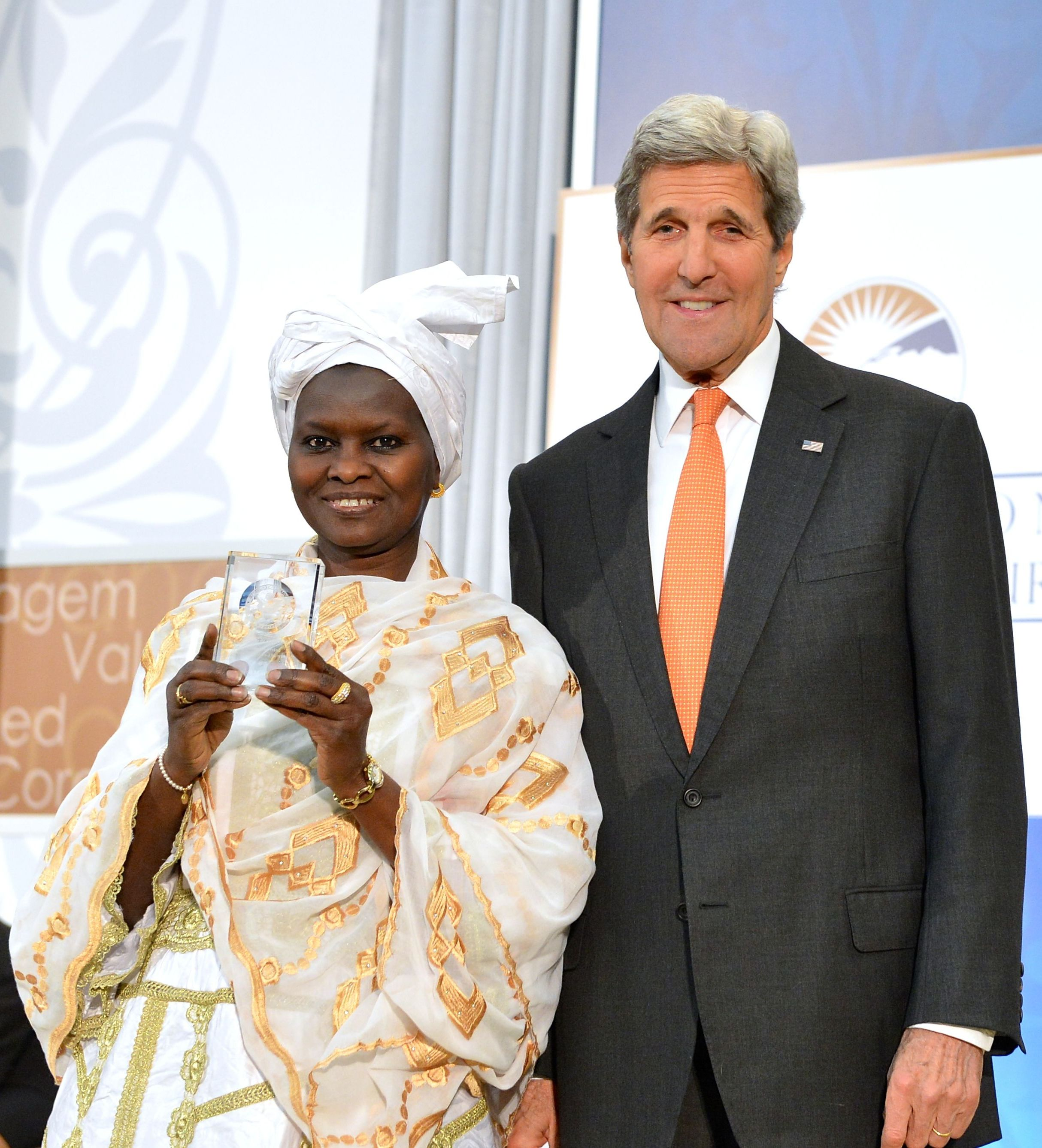 Fatimata M’baye at the International Women of Courage Awards 2016